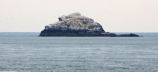 Ortac from above Clonque Bay, Alderney, Channel Islands, British Isles